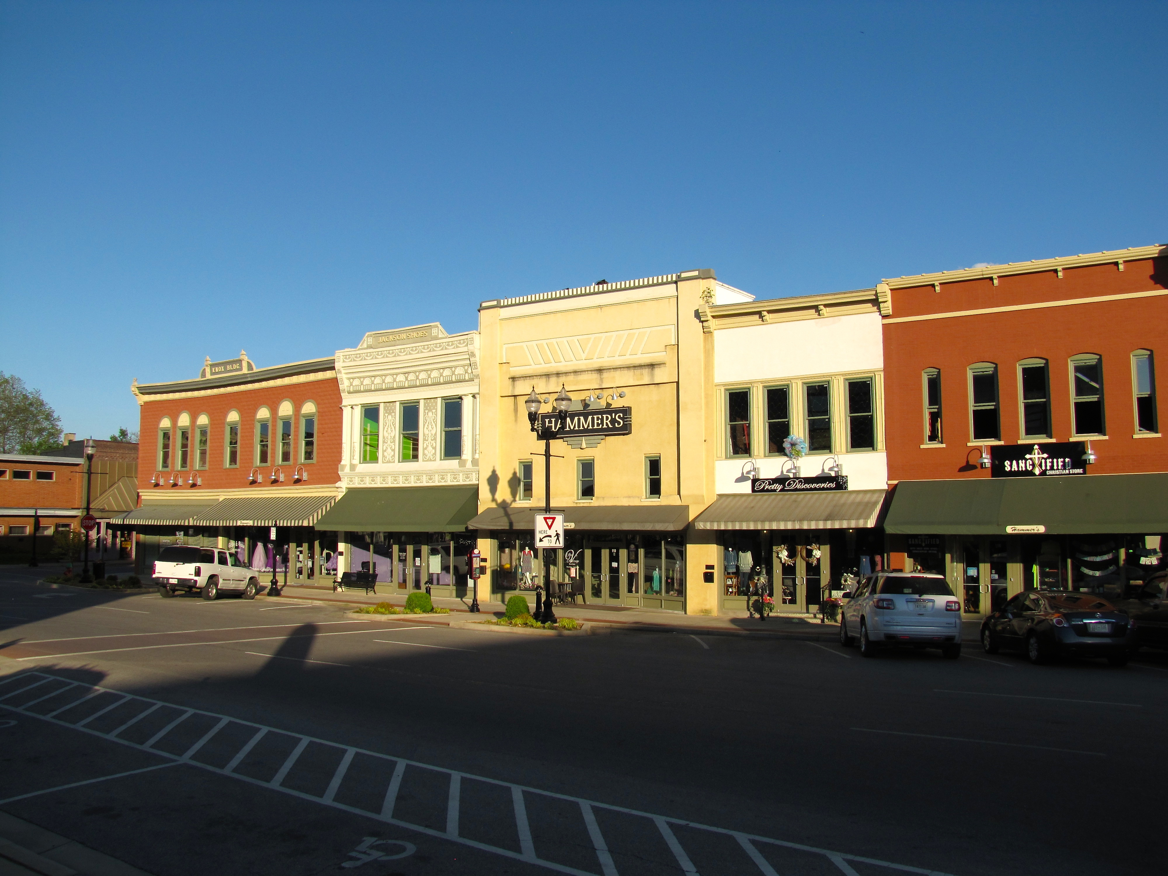 Buildings along 1st Avenue on the courthouse square in Winchester, Tennessee, United States.